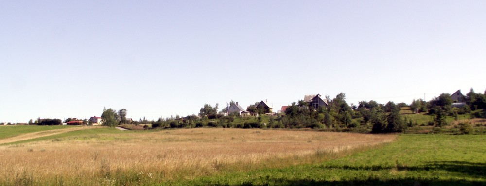 Gervėnai, Šiauliai district, Lithuania